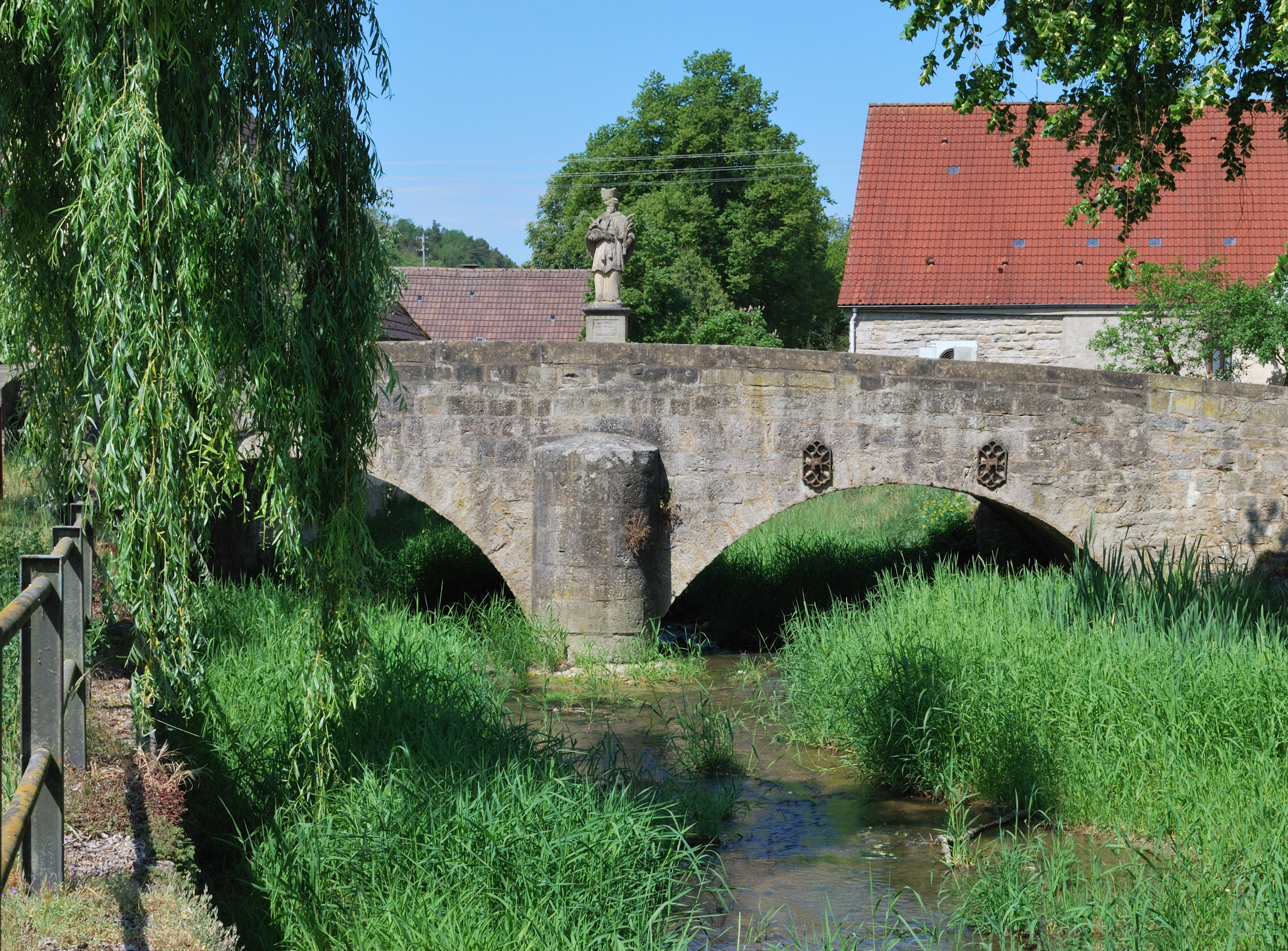 The bridge St. Nepomuk with the statue of St. Nepomuk in Zaisenhausen in Southern Germany.